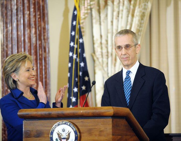 Secretary Clinton announces the appointment of Special Envoy for Climate Change Todd Stern in the Ben Franklin Room of the State Department.